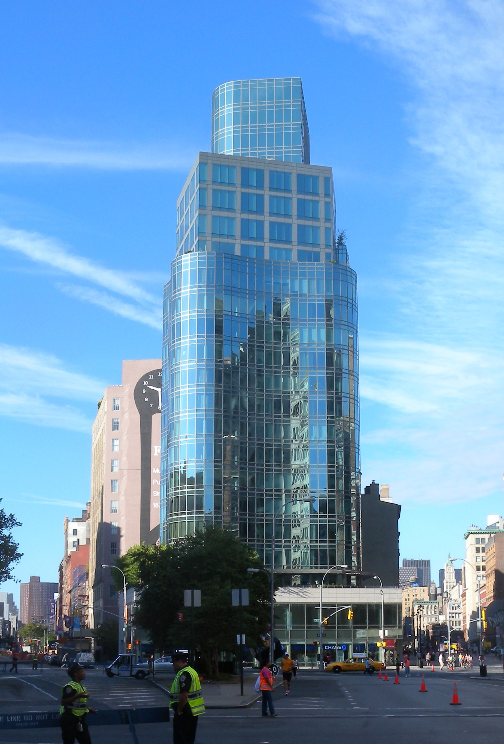 Looking south at The Related Companies building on a sunny morning.